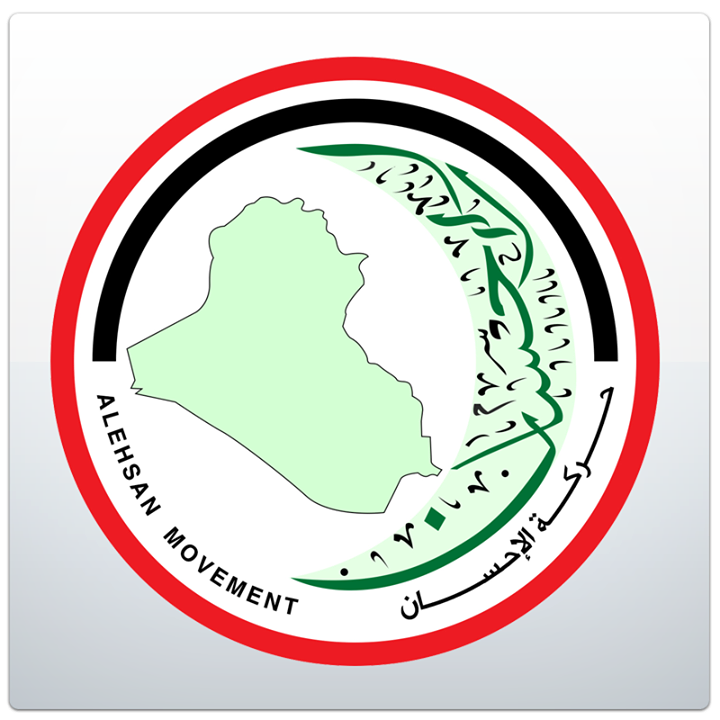 Logo of Ihsan movement